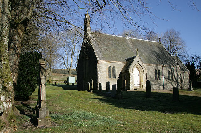 Liddesdale Parish Church A small country church (Church of Scotland) viewed from the B6357 at Saughtree. According to the church noticeboard, services are held on every 2nd Sunday of the month at 9-30am and 4th Sundays of March, June and September at 6-00pm.